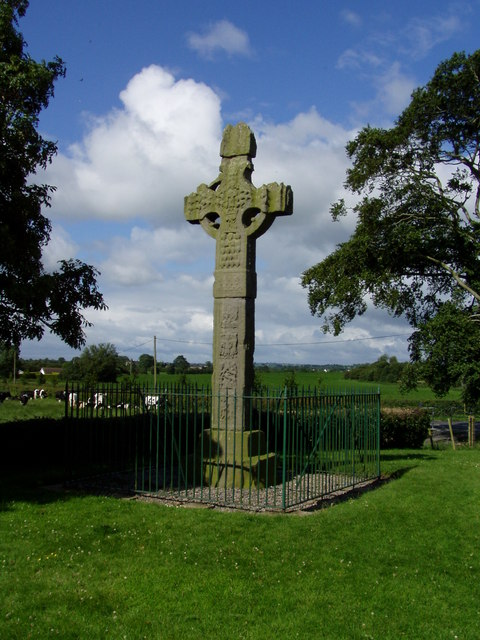 Ardboe Cross This cross dates back to 1166